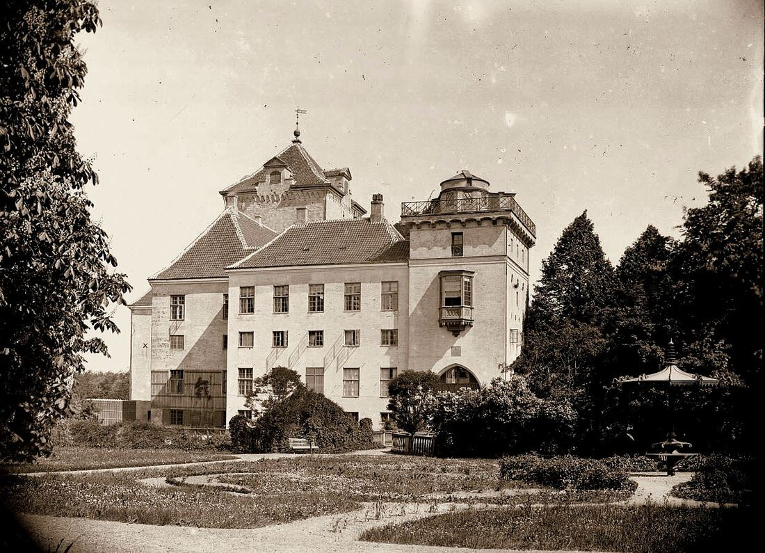 Gjorslev Manor on Stevns in Denmark.